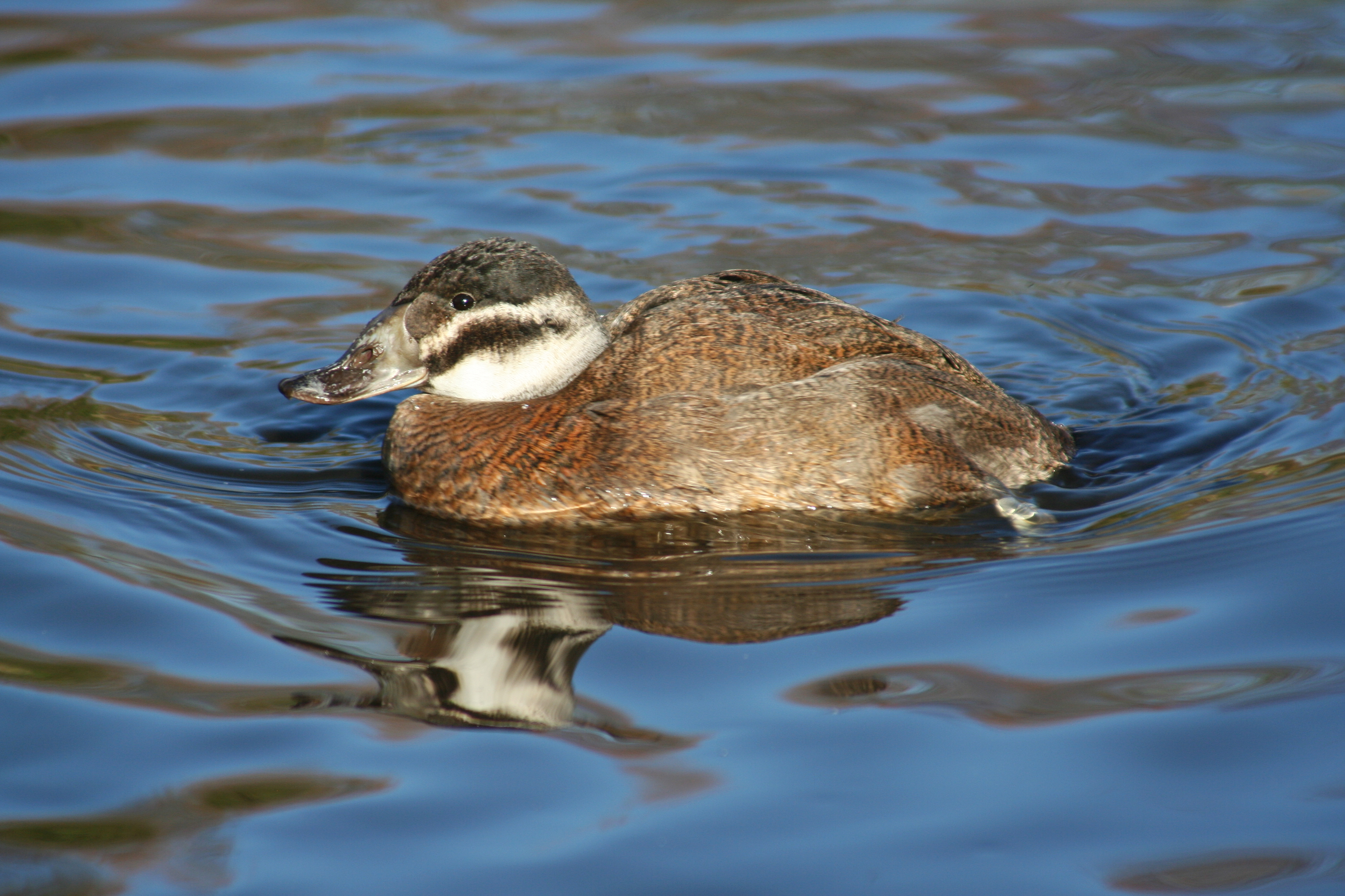 Female White-headed duck (Oxyura leucocephala) Taken by Duncan Wright